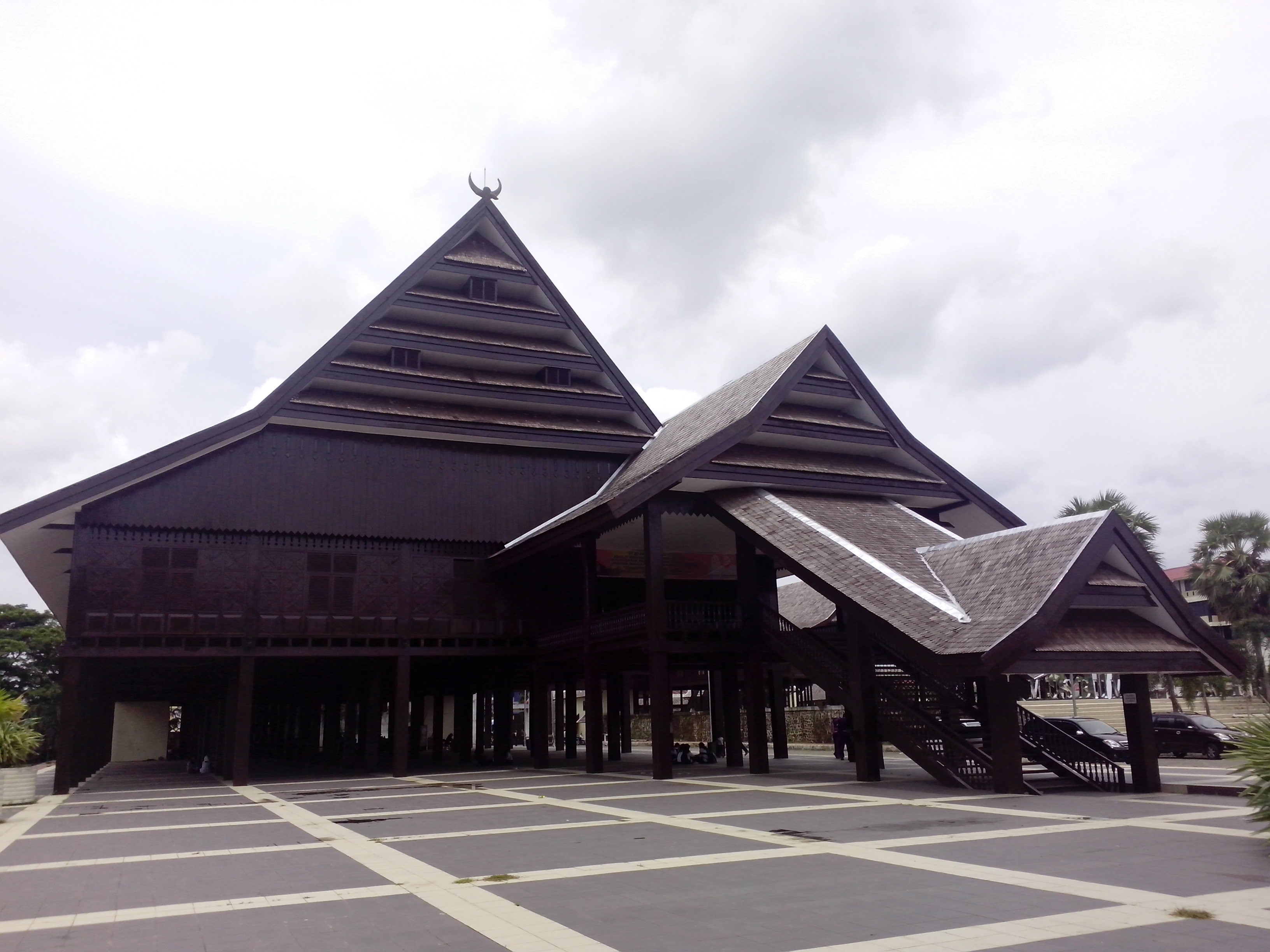 Tamalate Palace in Sungguminasa, Gowa Regency. The palace was where the kings of Gowa kingdom governed its territories from. Local people call it Balla' Lompoa (The House of Greatness).